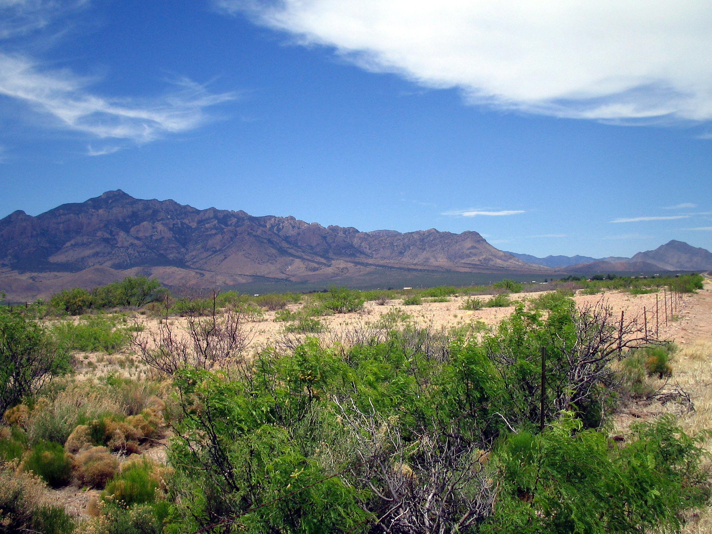 The San Simon Valley and Chiricahua Mountains — with the town of Portal, in southeastern Arizona (1962).